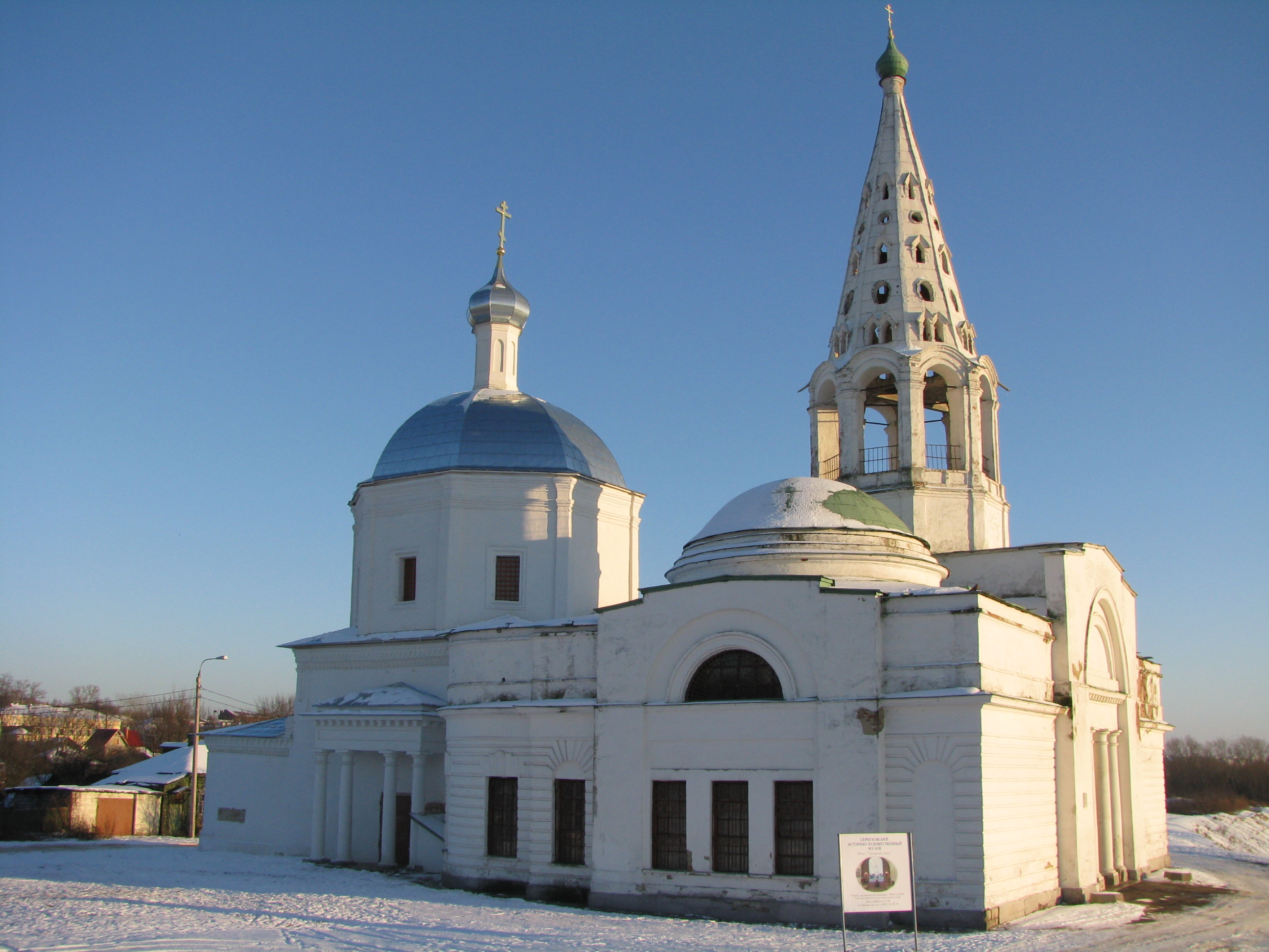 Serpukhov, Trinity Cathedral, XVII, north-west side view